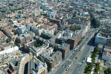 Madách square, Erzsébetváros, Budapest, Hungary, aerial photography